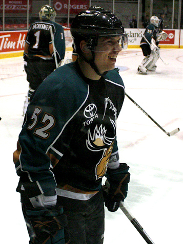 Manitoba Moose forward Sergei Shirokov during a game against the Toronto Marlies on April 3, 2010.